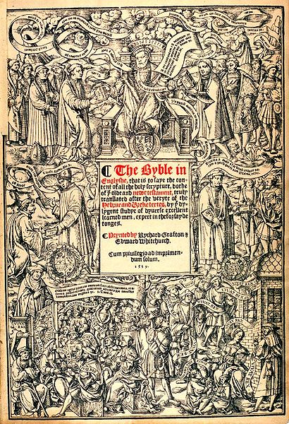 Title page from the Great Bible published by Grafton and Whitchurch in 1539. It depicts an enthroned Henry VIII receiving the Word of God and bestowing it upon his bishops and archbishops (top third), who in turn deliver it to the priests (middle third). Finally, the laity hear the Word and loyally recite, "Vivat Rex" and "God save the kynge" (bottom third).